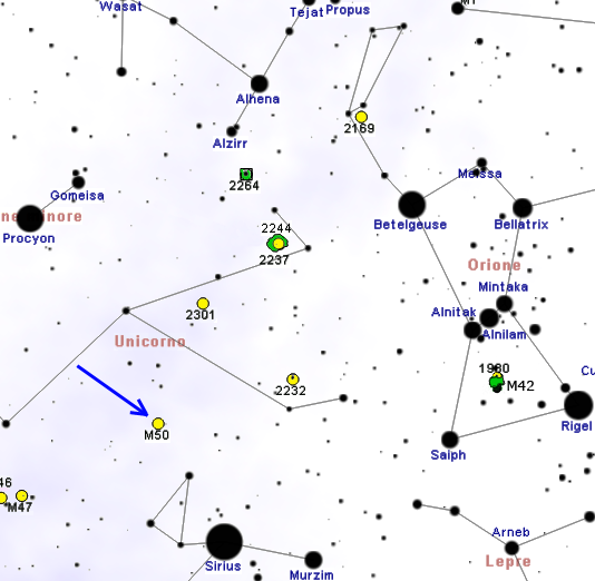 Map of M50